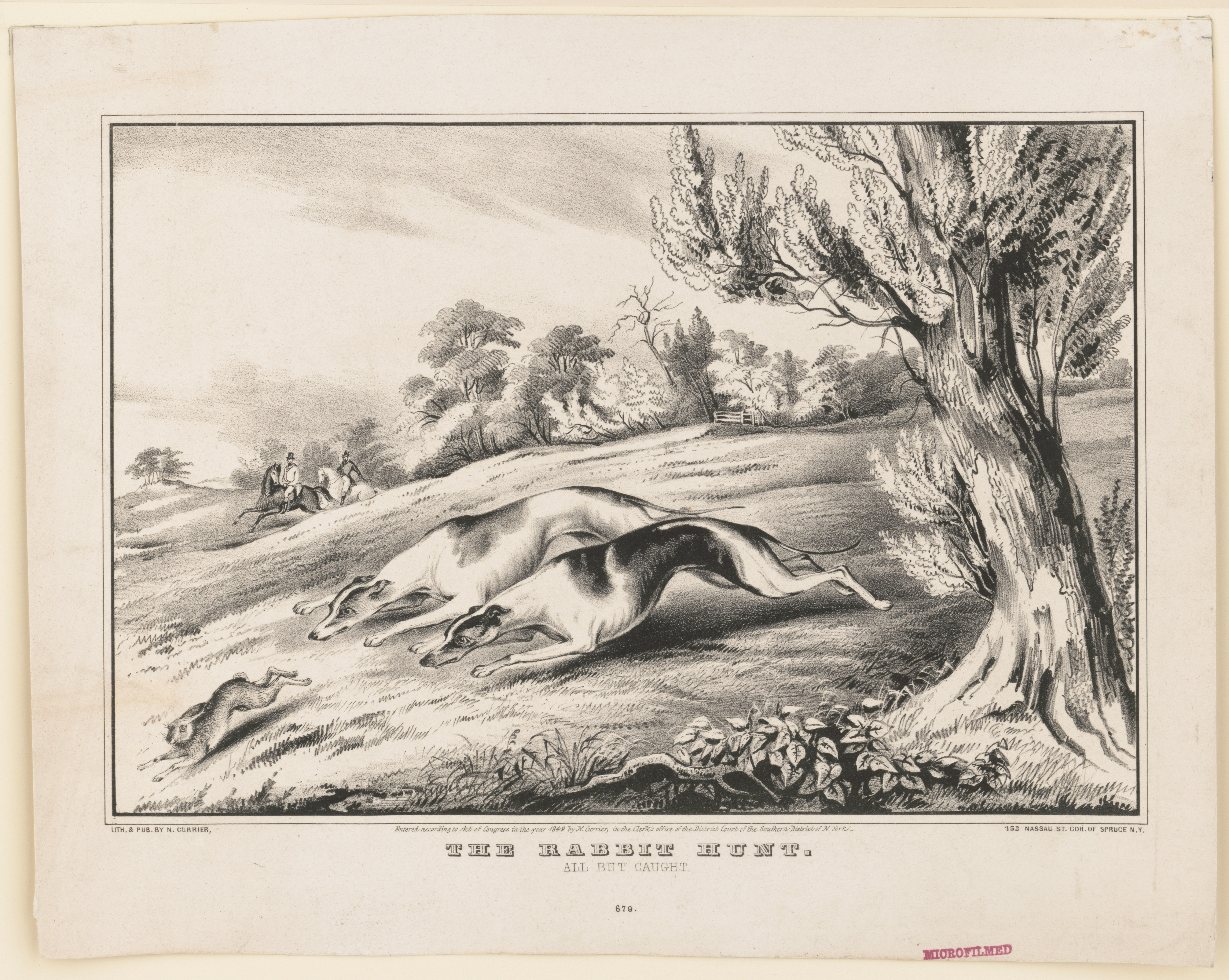 Title: The rabbit hunt: all but caught Physical description: 1 print : lithograph.